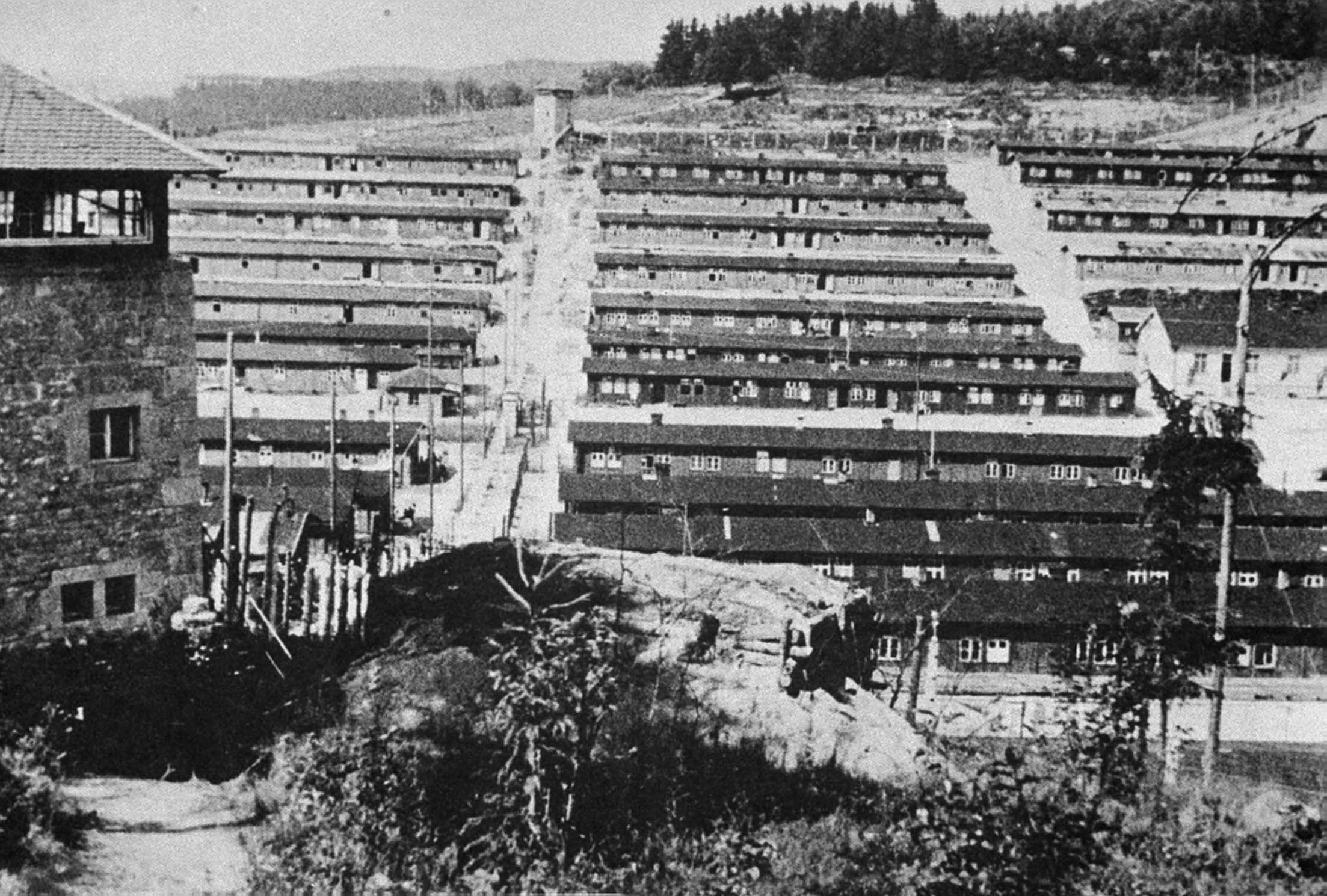 General view of Flossenbürg concentration camp after liberation by the US Army 99th Infantry Division, April 1945. US Army photo.